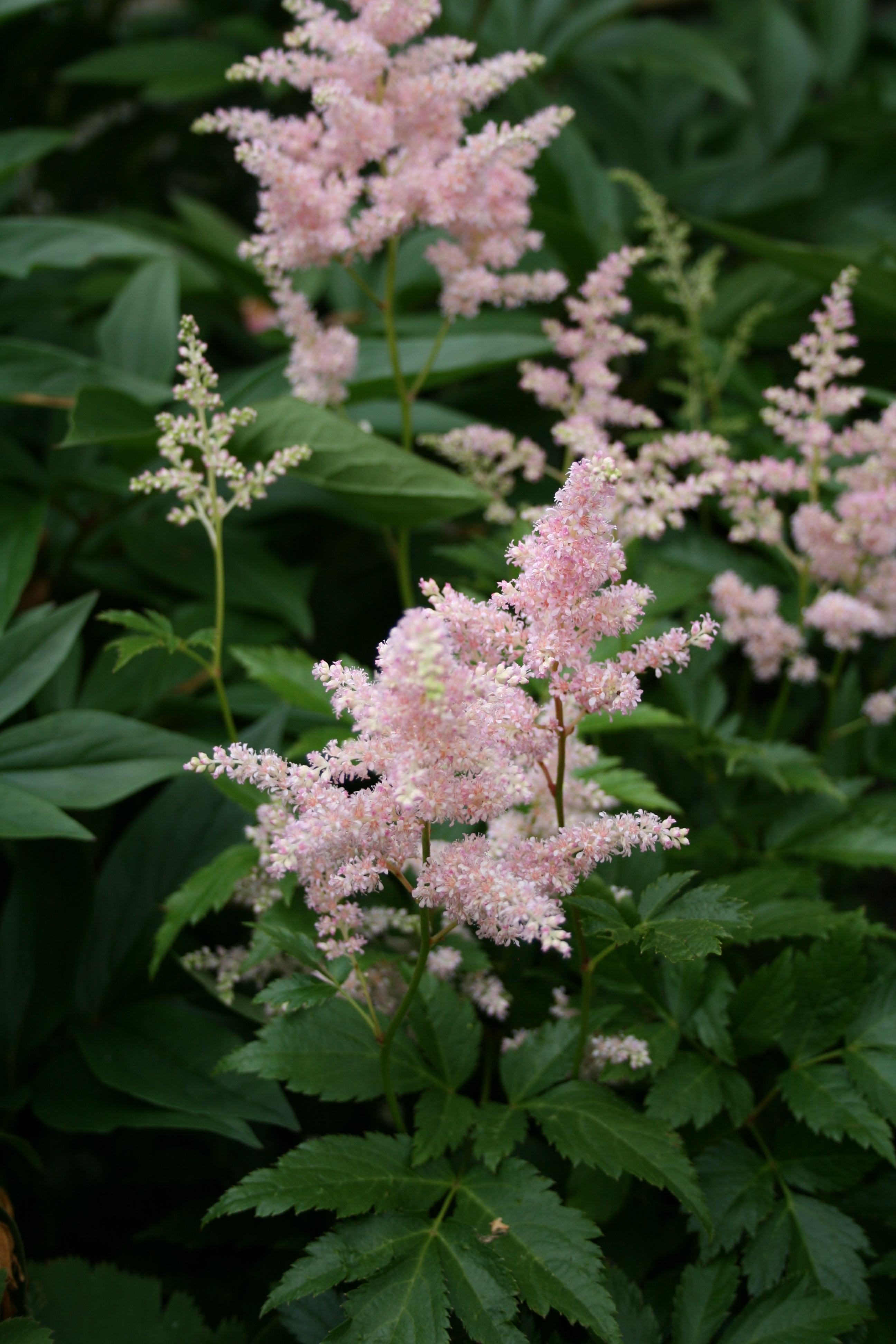 Astilbe 'Europa' (Arendsii cultivar group)